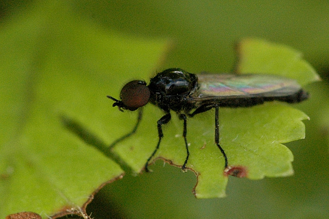 Picture taken in Commanster, Belgian High Ardennes . Species: male Dilophus febrilis